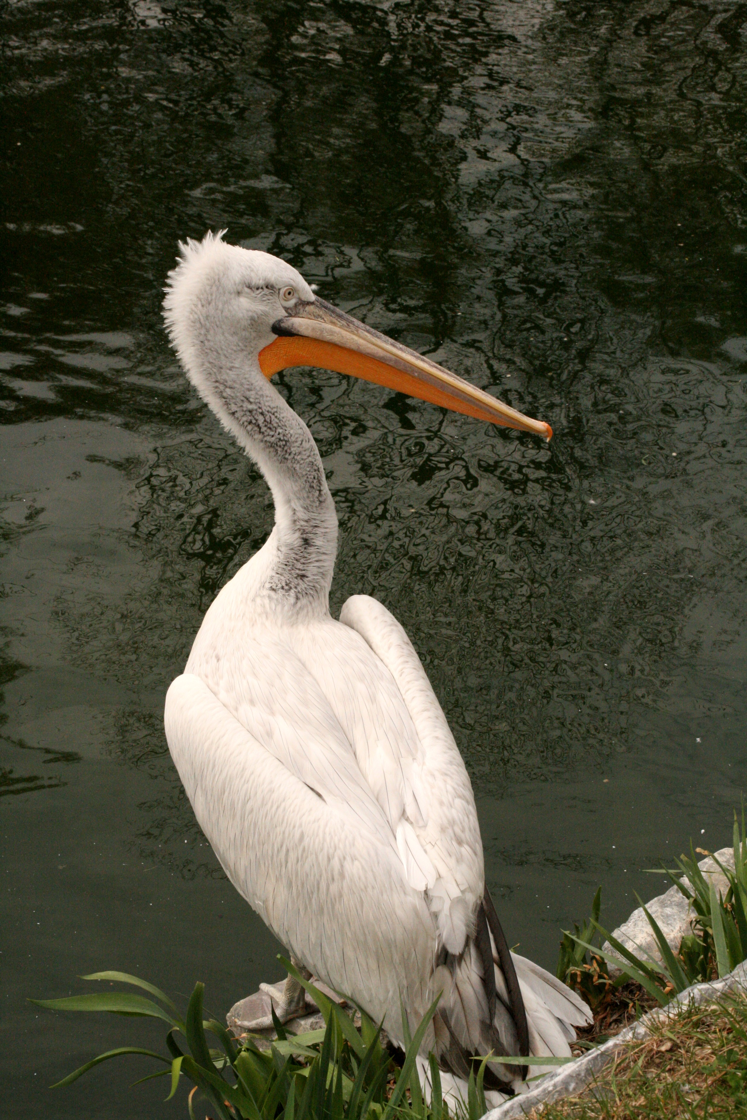 Dalmatian Pelican (Pelecanus crispus), Herberstein zoo, Styria, Austria, Europe